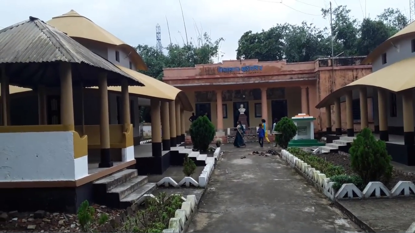 Birthplace of Ishwar Chandra Vidyasagar, Birsingha, Ghatal